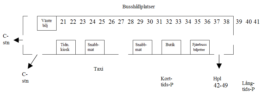 Interior layout of the Gothenburg bus terminal, the Nils Ericson Terminal.